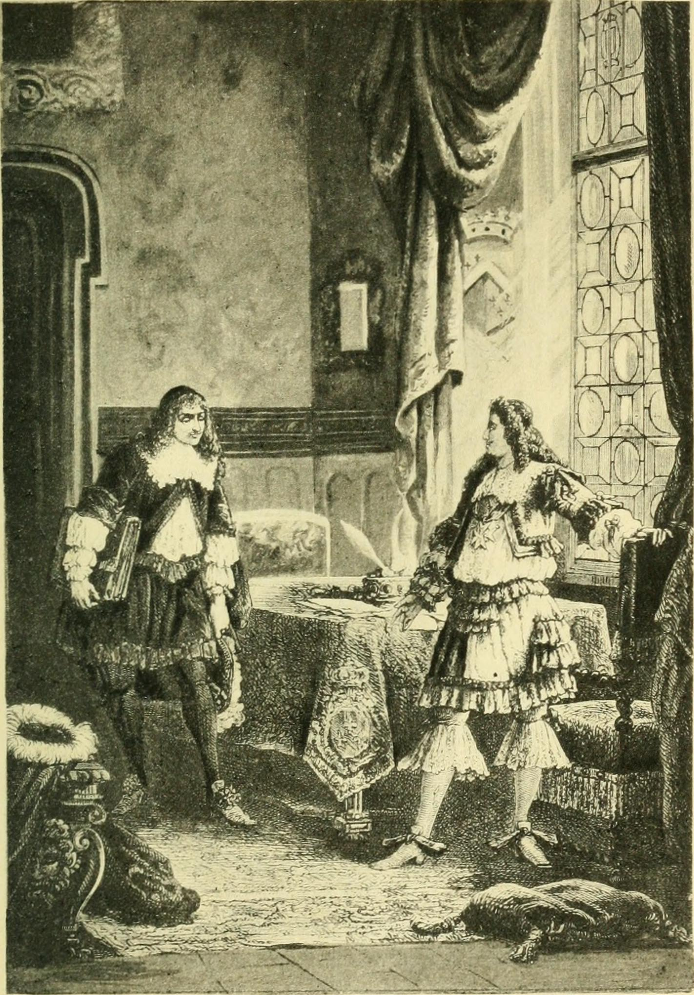 Title: Louis the Fourteenth, and the court of France in the seventeenth century Year: 1905 (1900s) Authors: Pardoe, Miss (Julia), 1806-1862 Subjects: Louis XIV, King of France, 1638-1715 France -- History Louis XIV, 1643-1715 France -- Court and courtiers Publisher: New York : J. Potts Text Appearing Before Image: 1-OUIS XIV. DISMISSIN F O U Q U K T Text Appearing After Image: The Court of France 111 danced several courantes with the King, becamefatigued by the noise and excitement, and expressed awish to retire for a time from the saloon; upon whichLouis, drawing her arm through his, led her, in herturn, through the splendid suite of rooms by which hehad been at once astonished and offended, and badeher remark the ostentation with which M. Fouquethad introduced his armorial bearings on all sides, andin every compartment of the ceilings. The shieldbore a squirrel, with the motto. Quo non ascendam ?and, as she was engaged in reading it, Colbert chancedto enter the apartment, of whom she inquired itsmeaning. It signifies, • To what height may I not attain ?madam ; and it is understood by those who know theboldness of the squirrel, or that of his master, repliedthe Secretary, with marked emphasis. Louis bit his hp. At that particular moment M. Pelisson chanced topass, and overhearing the rejoinder, he remarked, witha profound bow, as he fixed his eyes steadi